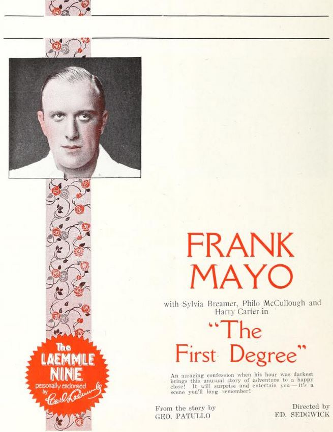 Ad for the American film The First Degree (1923) with Frank Mayo, on page 30 of the December 2, 1922 Universal Weekly.